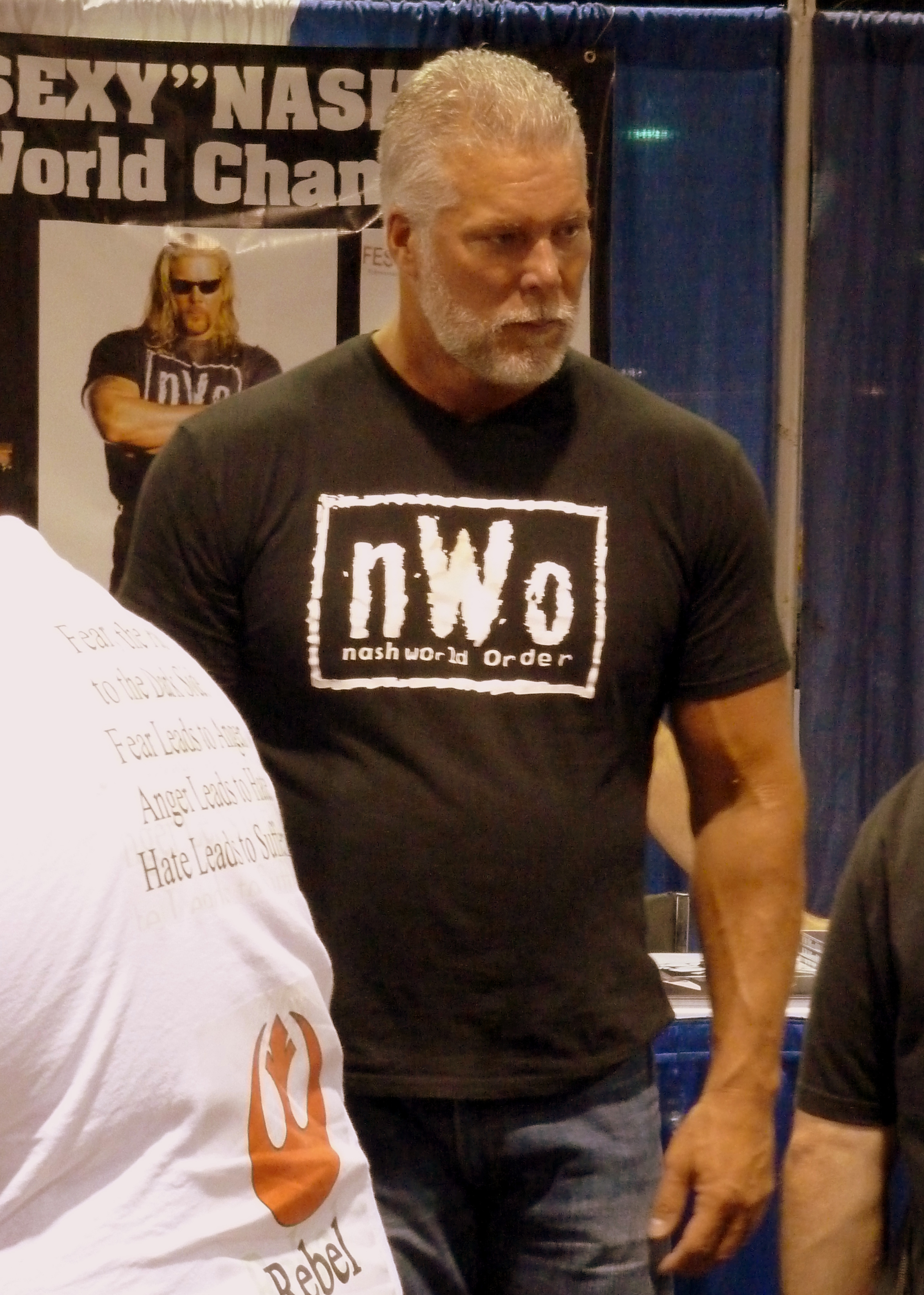 Kevin Nash with a NWO T-Shirt